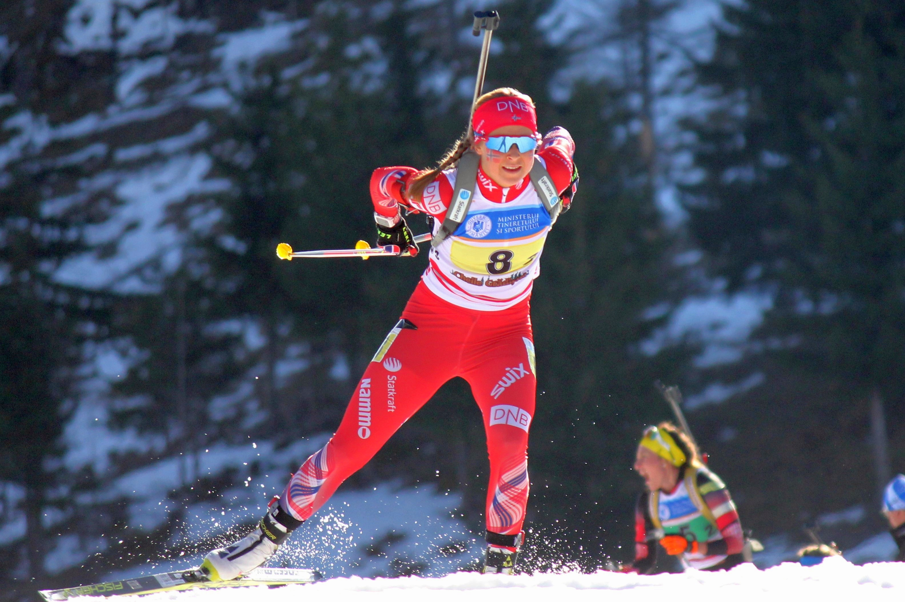 Ingrid Landmark Tandrevold at the 2016 Biathlon Junior World Championships.